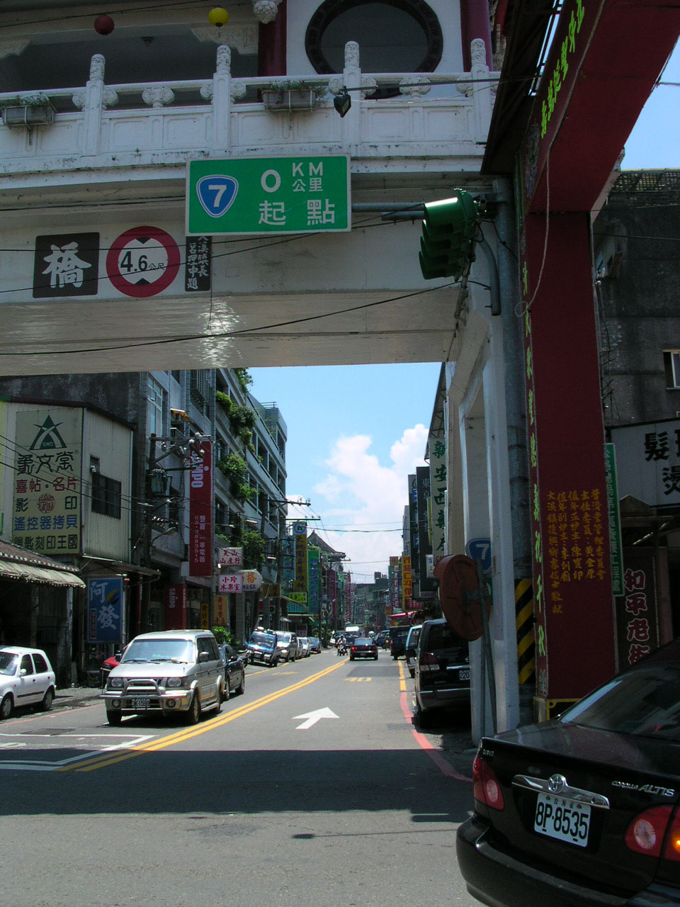 this photo taken by vegafish